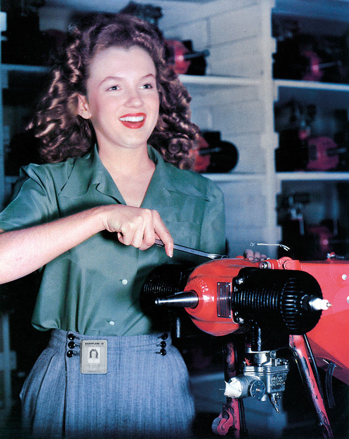 U.S. army - June 26, 1945 YANK magazine photo (colorized version) of Marilyn Monroe as Norma Jeane Dougherty